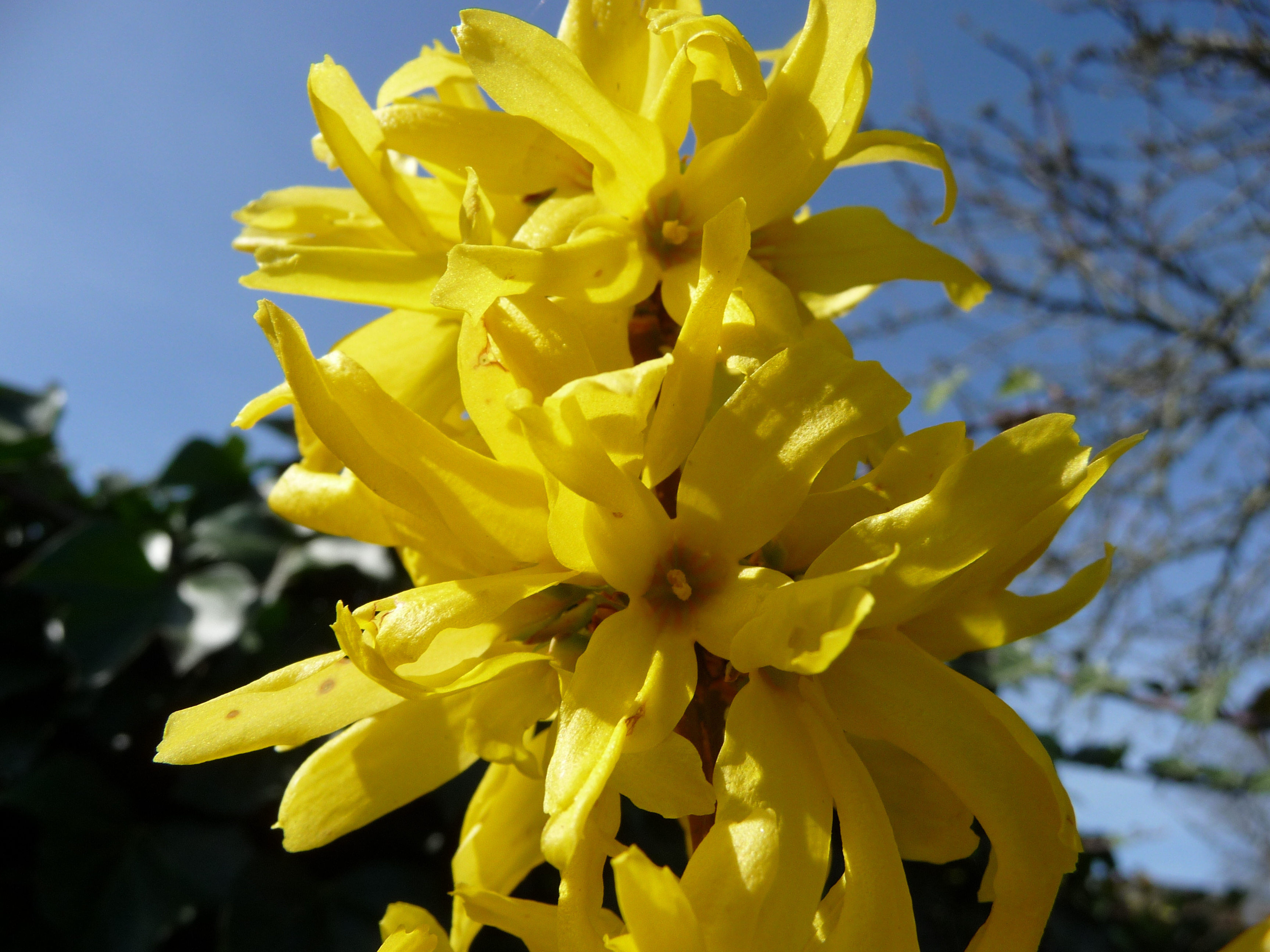 Unidentified Forsythia